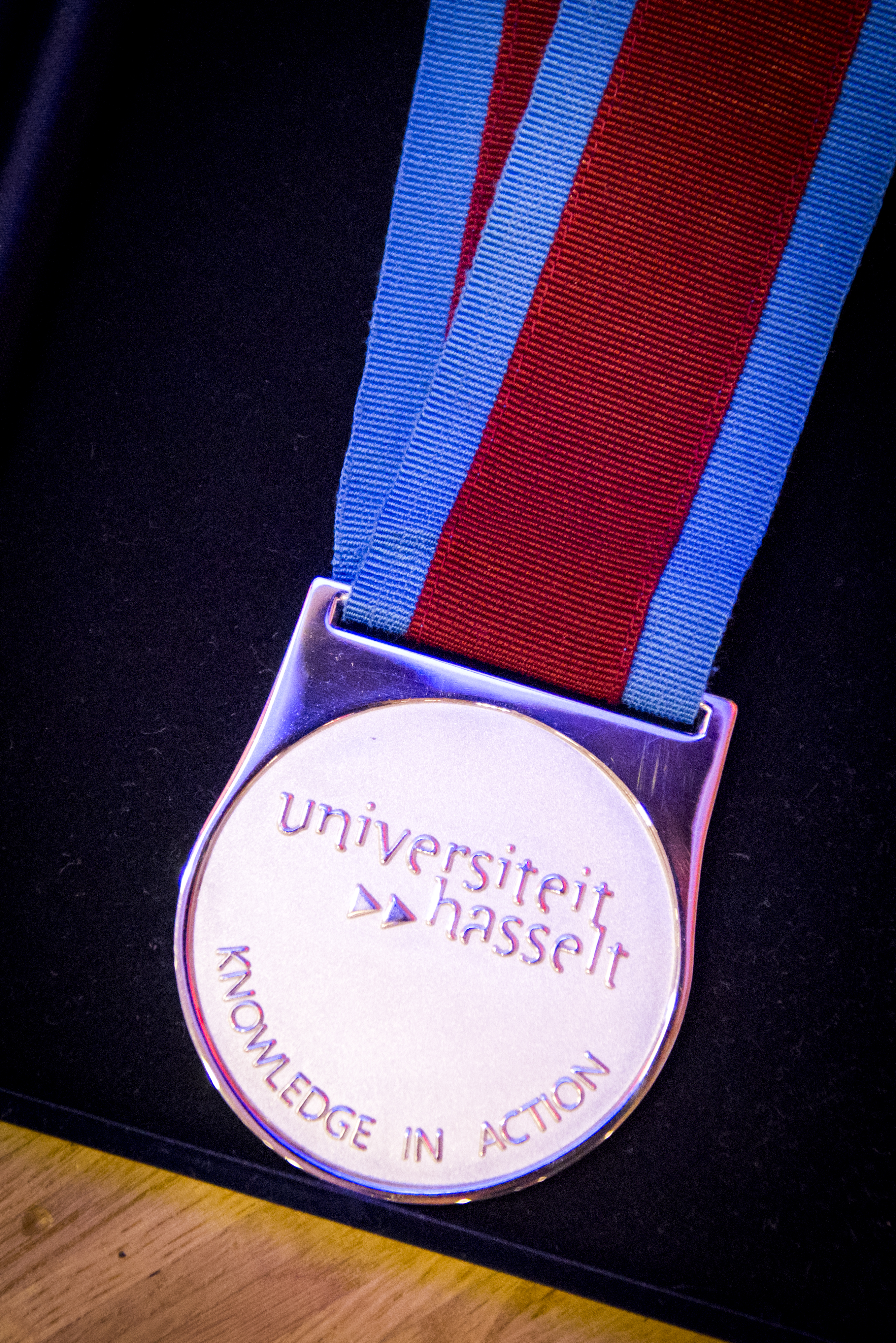 University medal of Hasselt University.